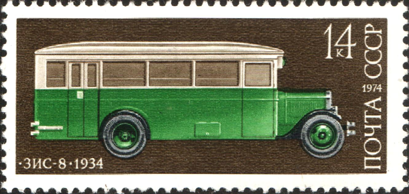 USSR stamp